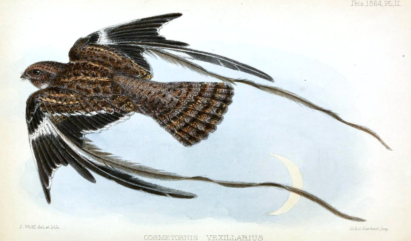 « Cosmetornis vexillarius » = Macrodipteryx vexillarius (Pennant-winged Nightjar)